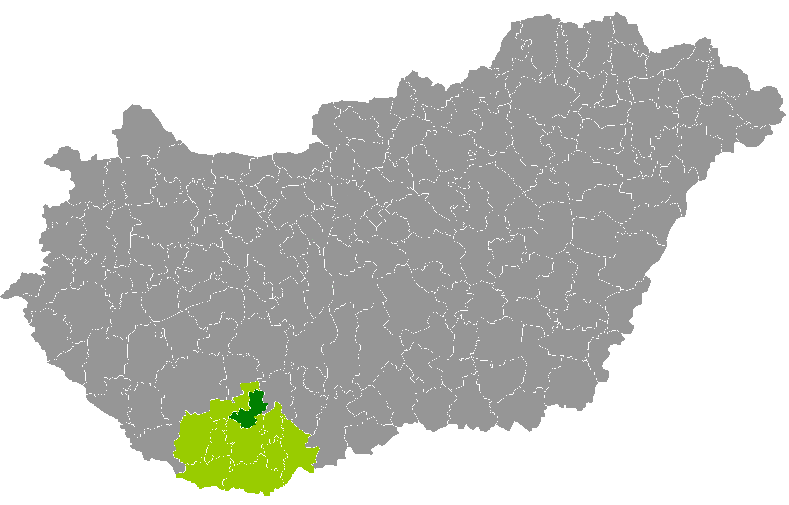 Location of Komló District, Baranya, Hungary